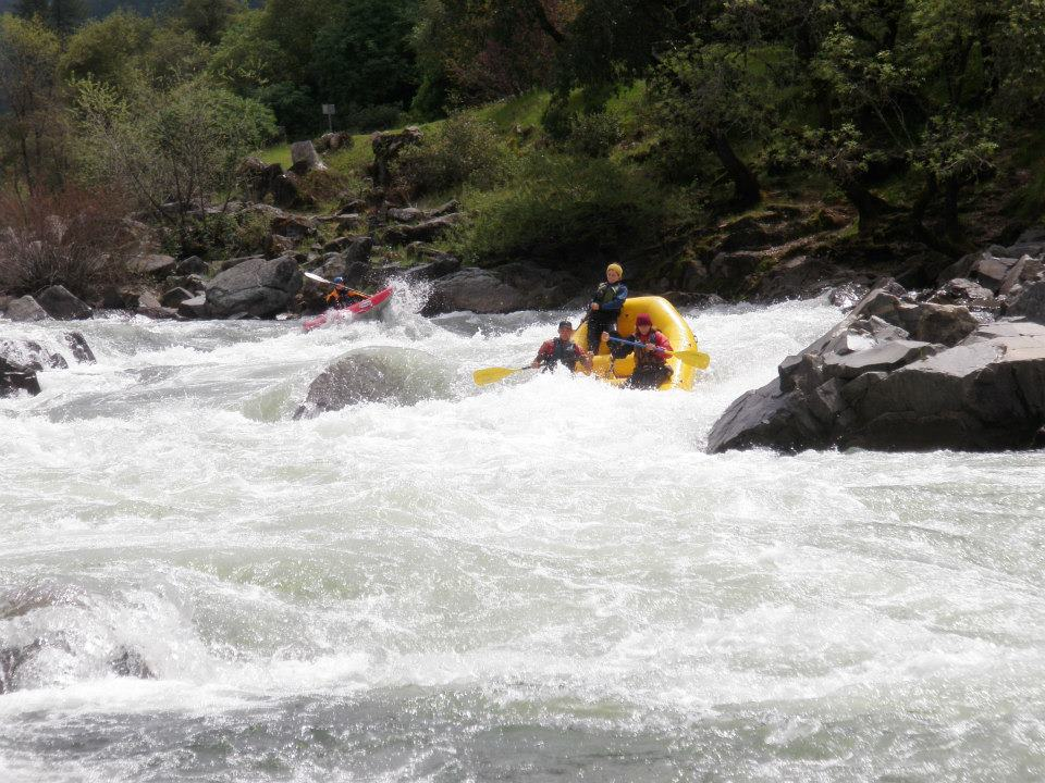 A raft successfully manuevers through Troublemaker rapid on the South Fork of the American River, Coloma, CA.